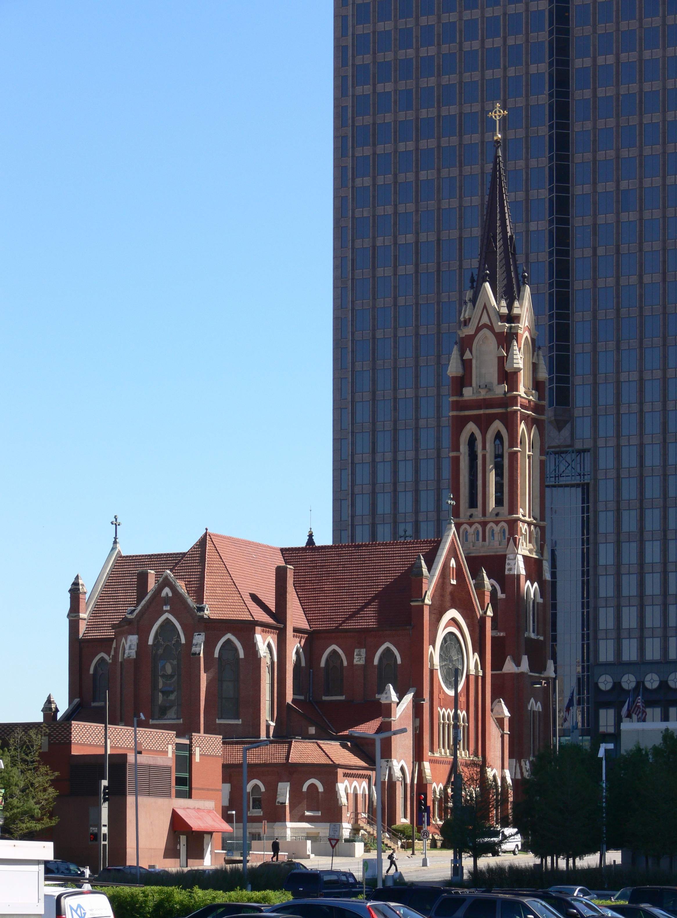 Dallas, Texas, Roman Catholic Cathedral Santuario de Guadalupe